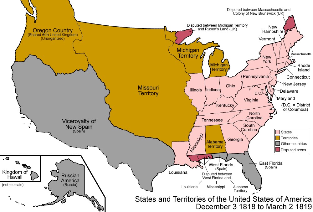 Map of the states and territories of the United States as it was from December 1818 to March 1819. On December 3 1818, the southern portion of Illinois Territory was admitted as the state of Illinois, and the rest was joined to Michigan Territory. On March 2 1819, Arkansaw Territory was organized.